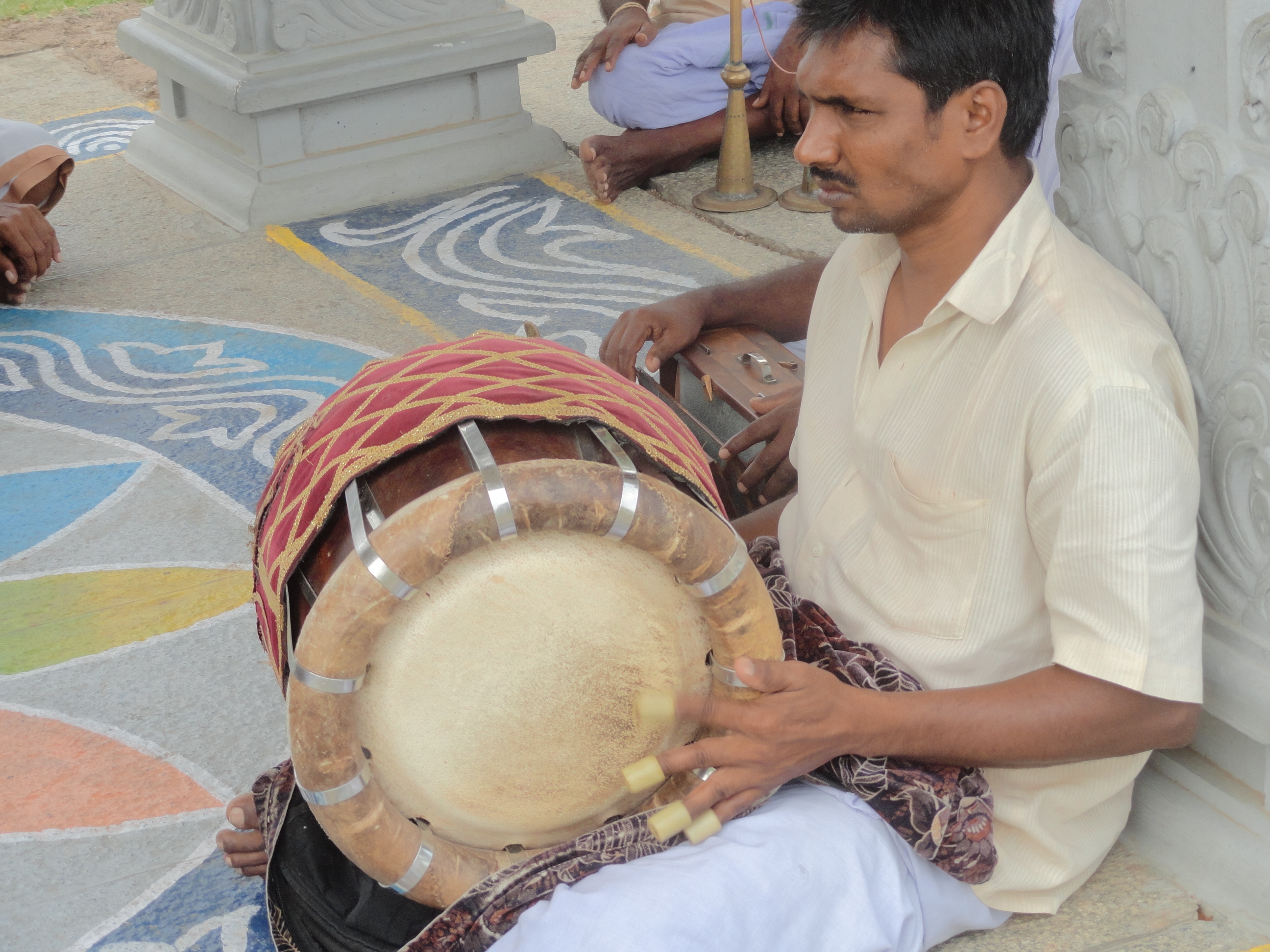 a musical instrument, picture taken at appalayagunta near tirupati